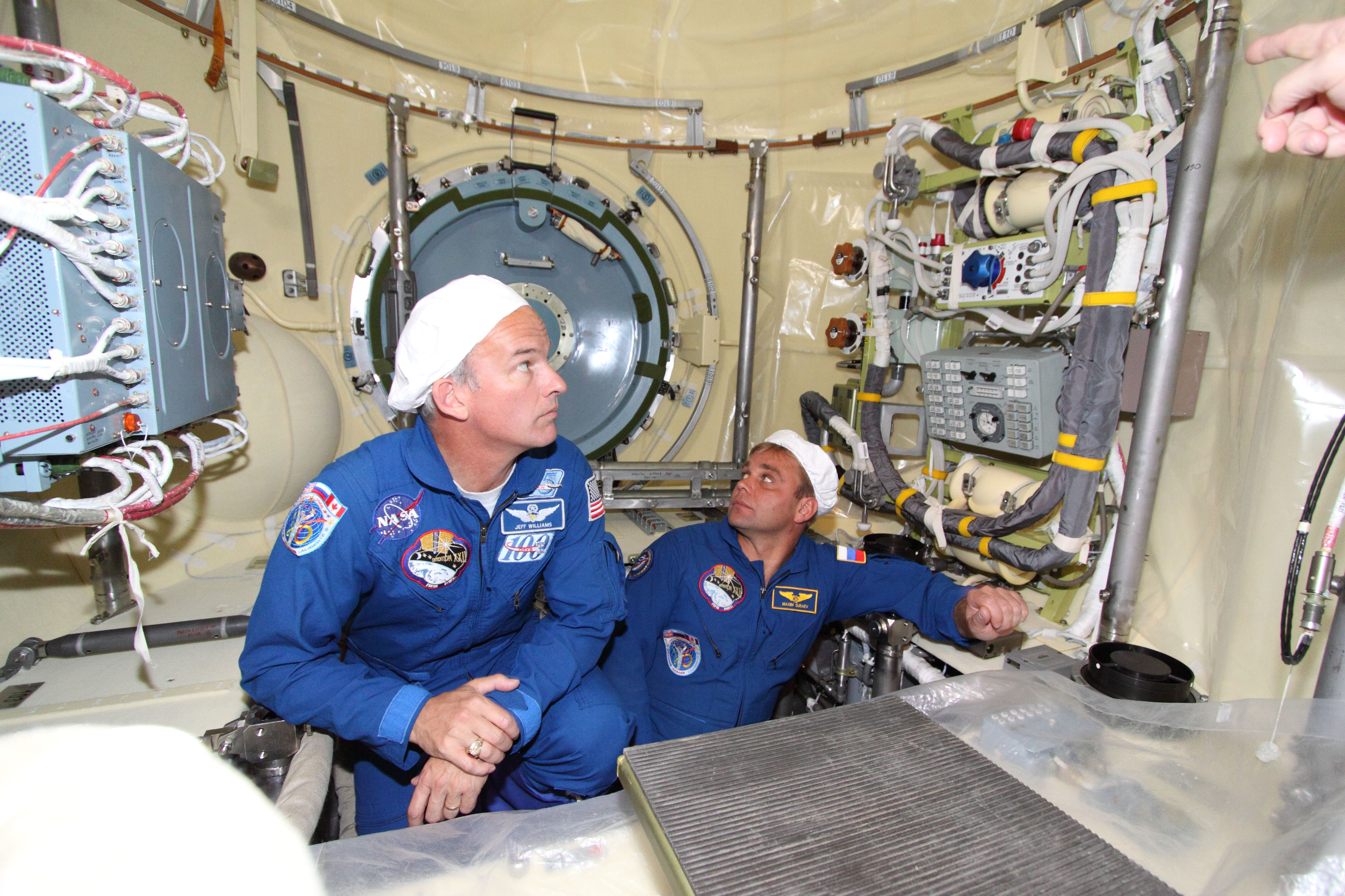 At the Baikonur Cosmodrome in Kazakhstan Sept. 26, 2009, NASA astronaut Jeff Williams (left), Expedition 21 flight engineer; and Russian cosmonaut Max Suraev, Soyuz commander, take a break from their preparations for launch Sept. 30 in the Soyuz TMA-16 spacecraft to the International Space Station to inspect the new Mini-Research Module 2 (MRM2) at the Integration and Checkout Facility. The MRM2 is scheduled for its own launch Nov. 10 on a Soyuz rocket en route to an automated docking to the station Nov. 12 to serve as a new docking port and spacewalk airlock on the Russian segment of the complex.